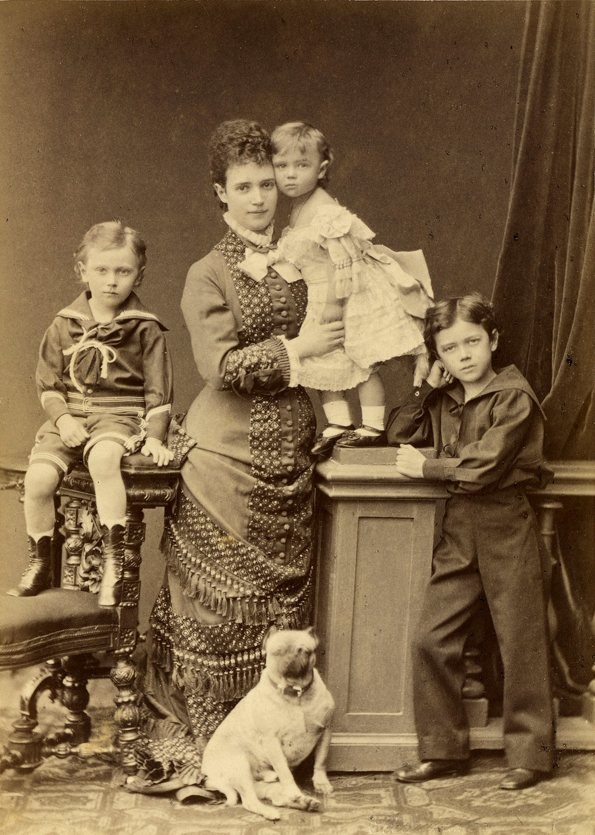 Tsesarevna and Grand Duchess Maria Feodorovna with children and pug. From left to right: George, Xenia, Nicholas.